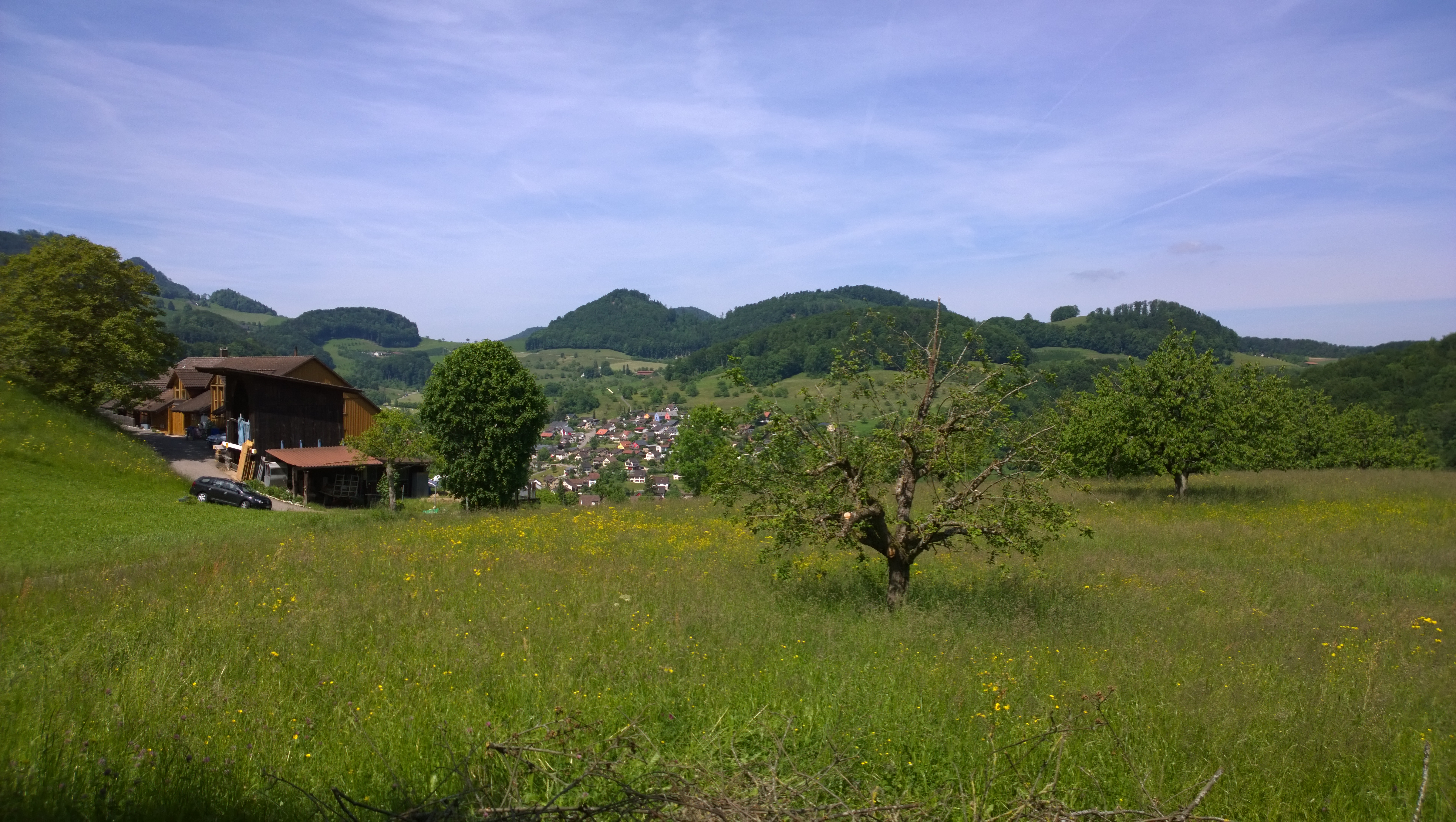 The municipality of Reigoldswil from a nearby hill, taken in May 2015.